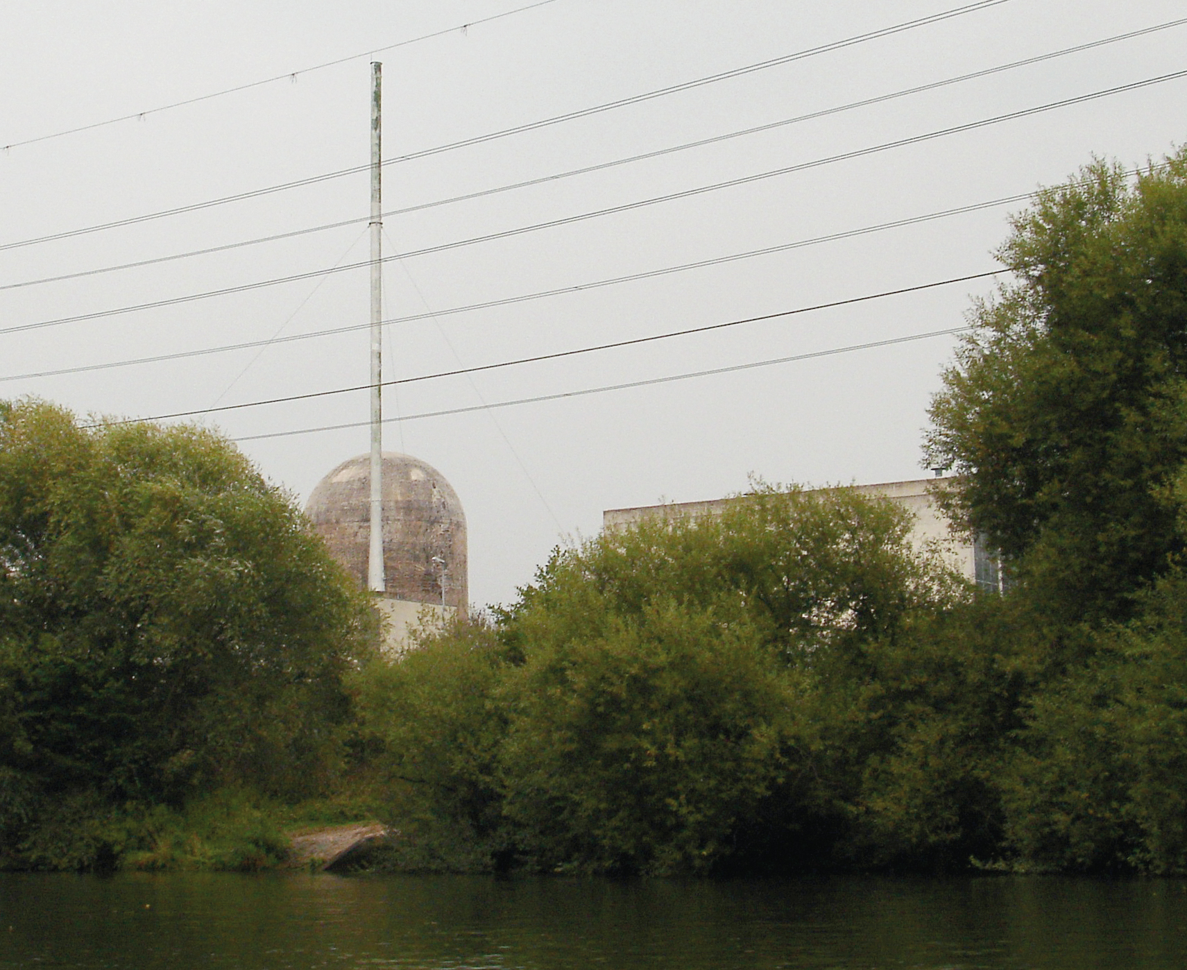 Kahl nuclear power station in Germany, photographed from the Main